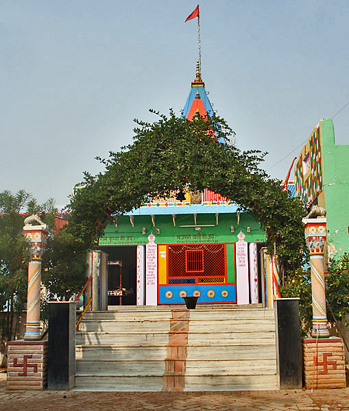 Temple in Chameli Van at Hodal in Faridabad District of Haryana, India.